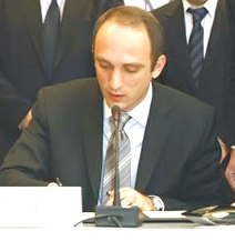 On Nov. 20, 2008, the Millennium Challenge Corporation and Georgia signed an amendment to the $295 million compact with Georgia that grants up to an additional $100 million in U.S. Government development assistance. The additional funding will complement activities currently funded by MCC, including the rehabilitation of Georgia’s road network, infrastructure development and energy activities.